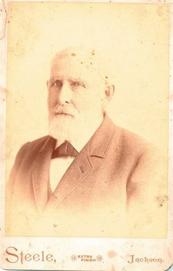 Photograph of Moses Archibald McNaughton.